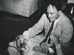 Douglas Grindlay with Mara. This photograph was taken in Africa by Irene Grindlay in 1965; both subject and author are deceased. A copy of this image appeared in Irene's biographical account of Mara's early years titled Velvet Paws, 1966. As the original was taken from the family album, On behalf of the surviving family members, thank you. See also [1].